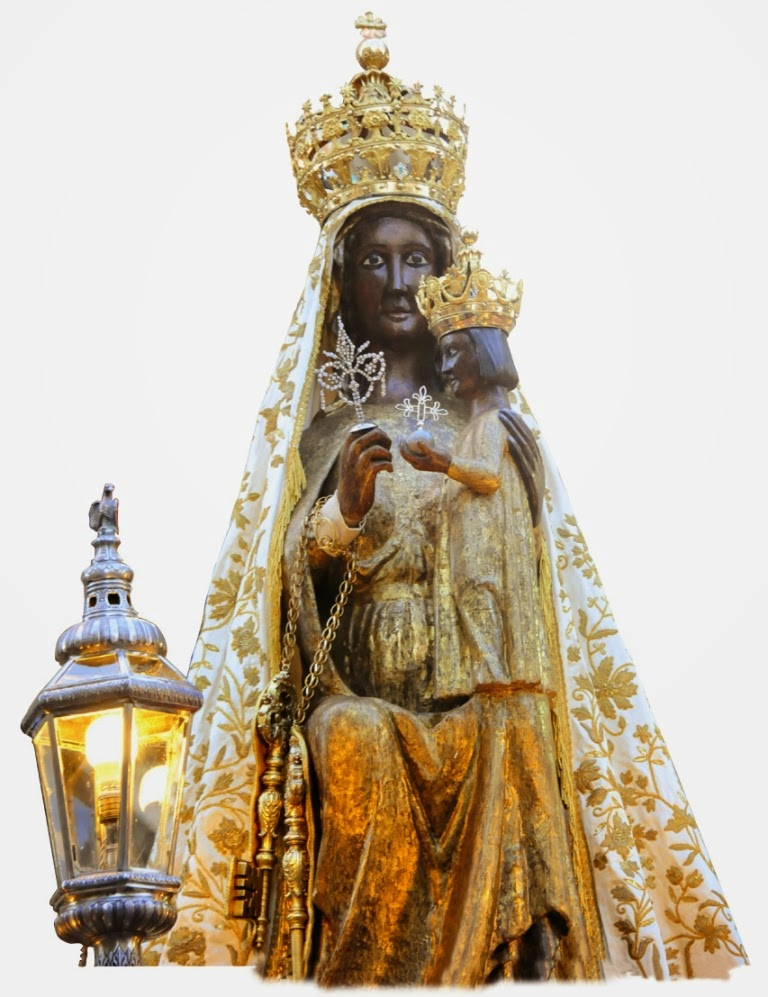 La patrona di Lucera (FG)